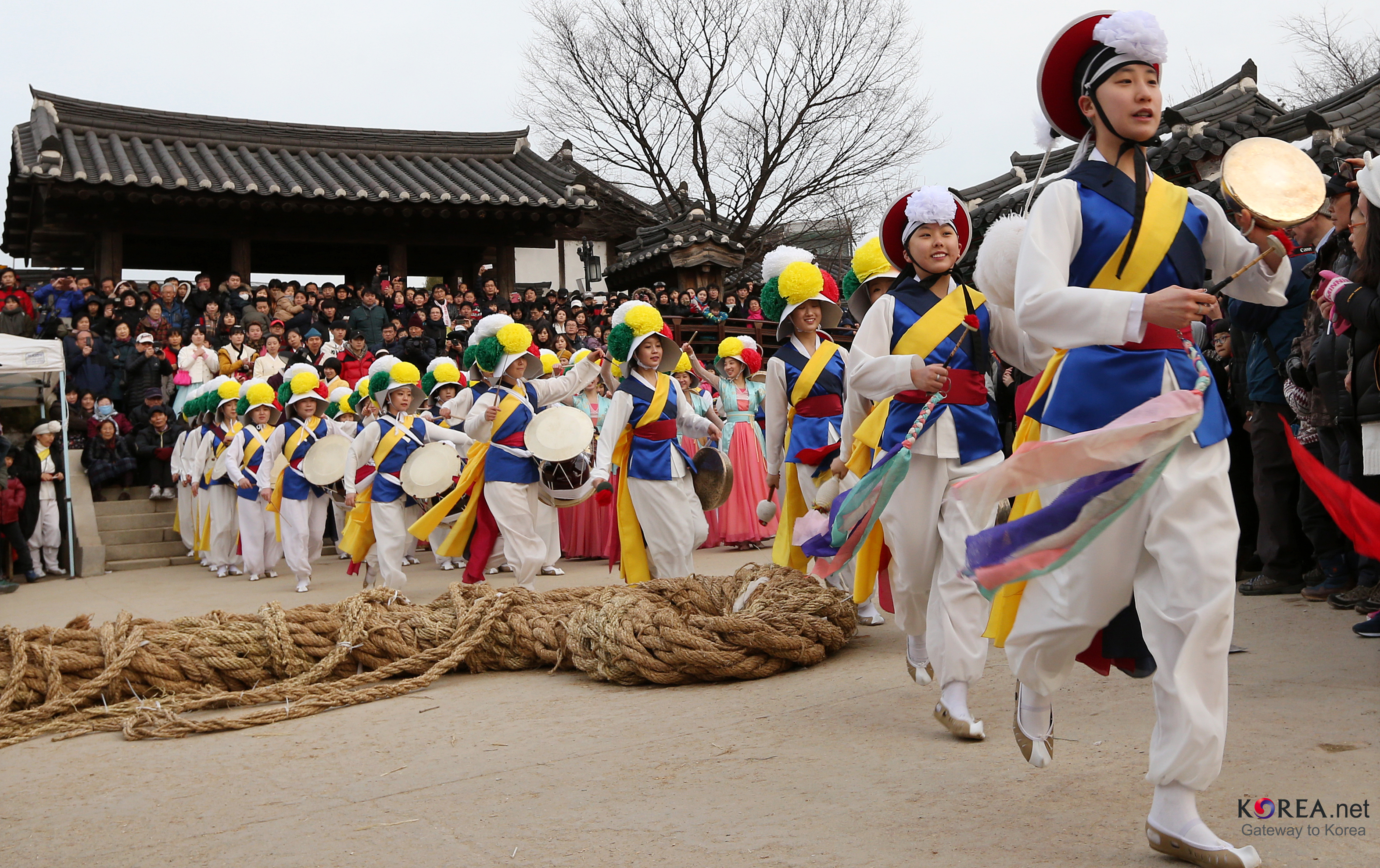 Jeongwol Daeboreum Sketch Jeongwol Daeboreum, the first full moon of the lunar calendar, is one of the biggest traditional holidays celebrated across Korea. Namsangol Hanok Village, Seoul 2013.02.24. Ministry of Culture, Sports and Tourism Korean Culture and Information Service Jeon Han 정월대보름 스케치 남산골한옥마을 문화체육관광부 해외문화홍보원 코리아넷 전한